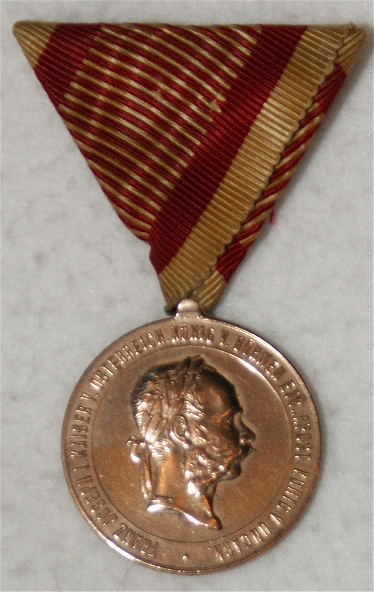 Austrian Warmedal 1873 with wrong ribbon (ribbon of the Medal for Bravery), front